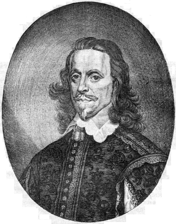 Fromhold, Johann [Hofbeamter, Diplomat 1602-1653]